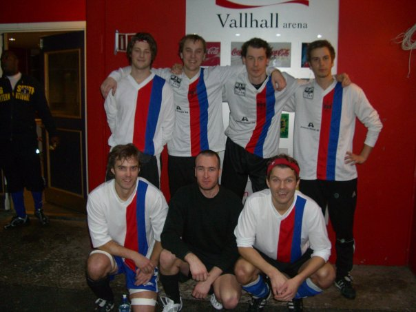 Picture of Sandaker futsal on Umbro Cup in dec 2008